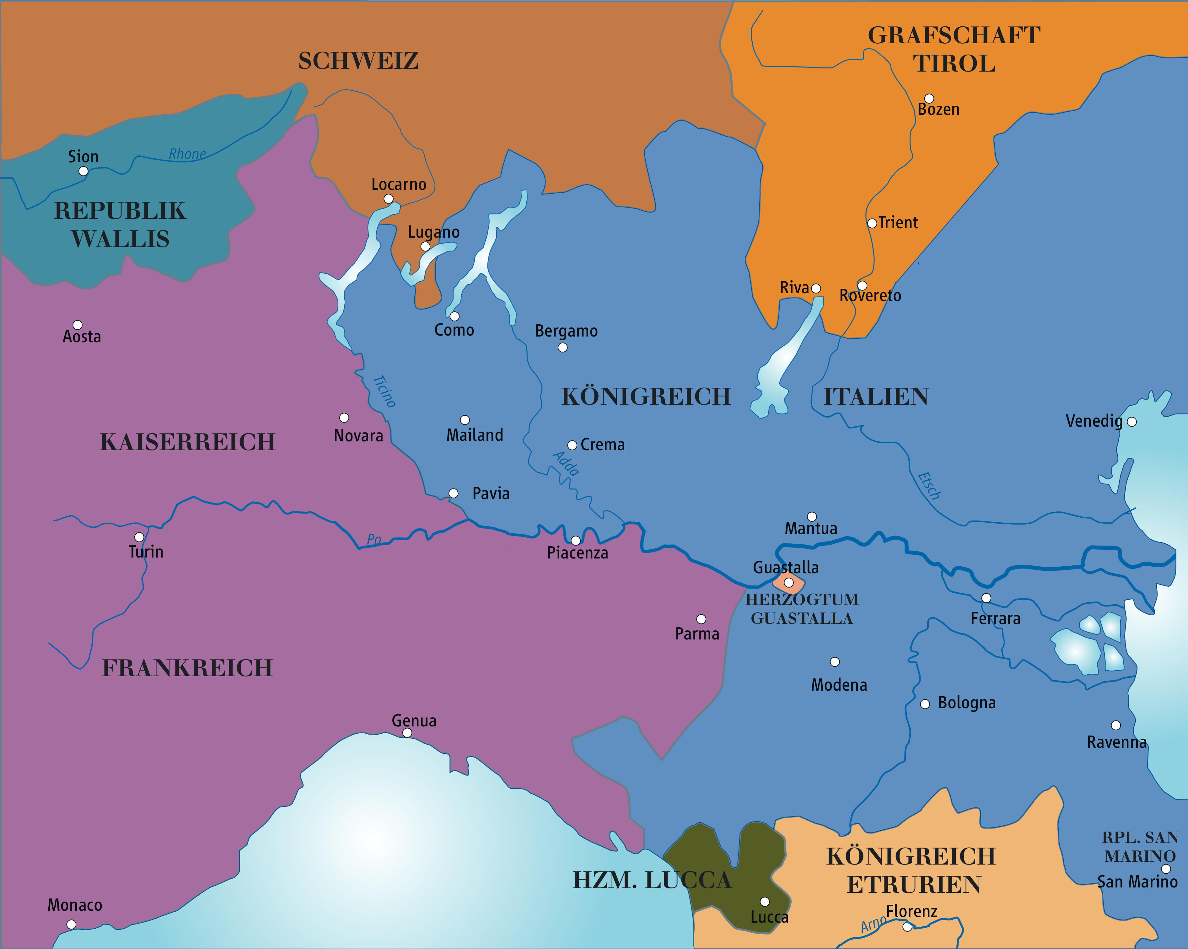 Map of Northern Italy 1806